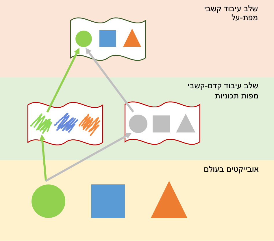 Feature Integration Theory, Anne Treisman, translate of File:Feature Integration Theory.png to Hebrew.